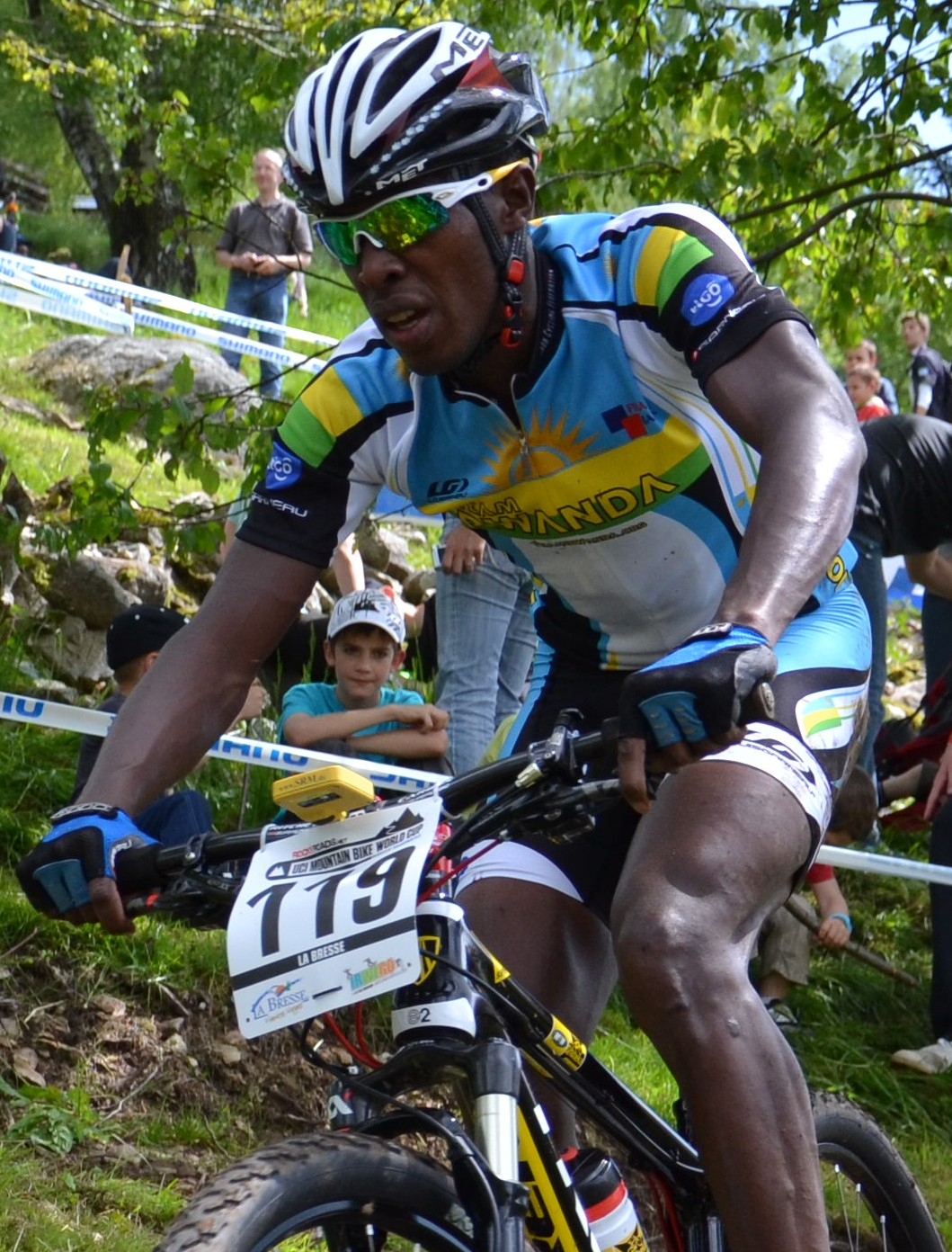 Adrien Niyonshuti